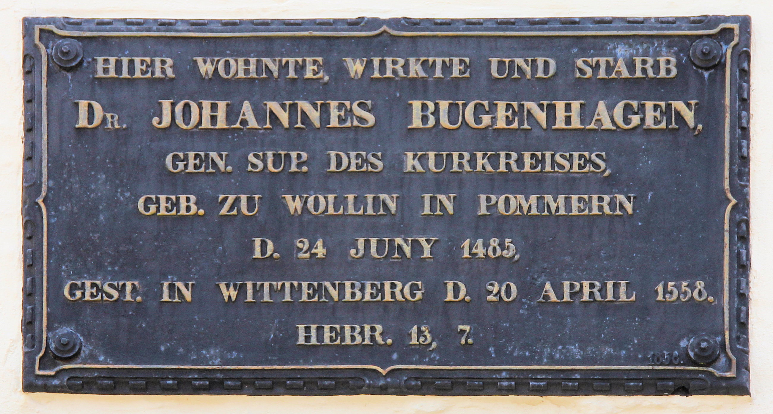 Memorial plaque, Johannes Bugenhagen, Kirchplatz 9, Lutherstadt Wittenberg, Germany Koordinate:51°51′59″N 12°38′41″E / 51.86639°N 12.64472°E